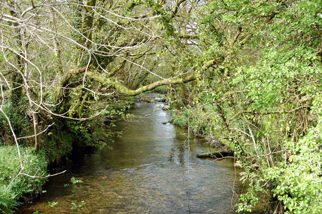 The infant River Camel at Slaughterbridge near Camelford, Cornwall, UK, in 2009.